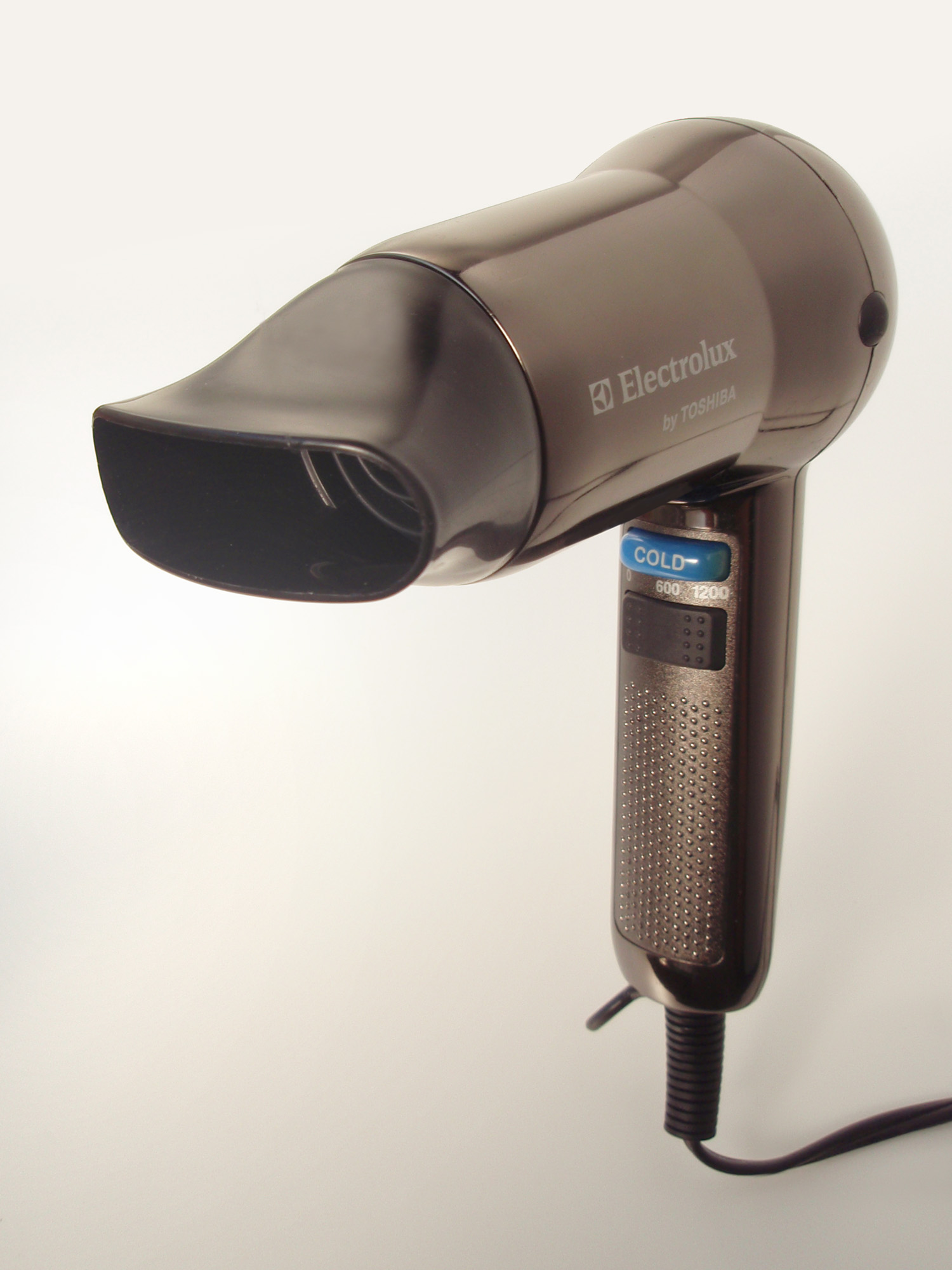 Toshiba bland hairdryer